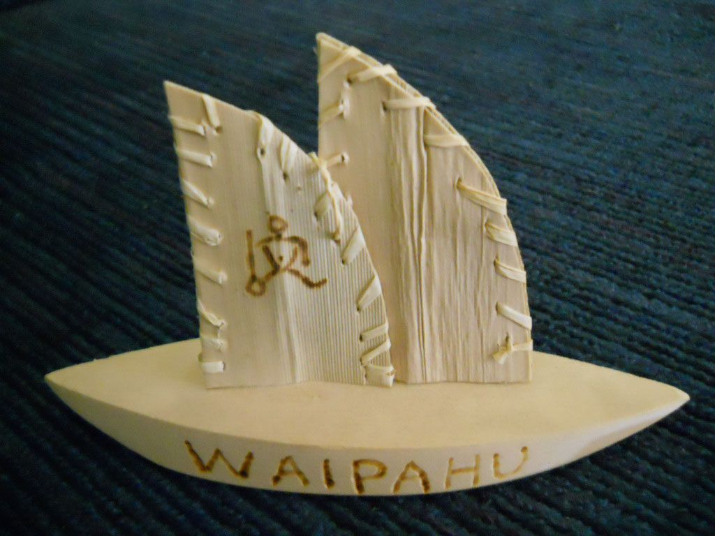 Wood burned souvenir from Waipahu, Hawaii; miniature wooden boat.